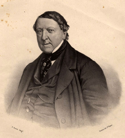 Gioachino Rossini, c. 1850 (F. Perrin lithograph)